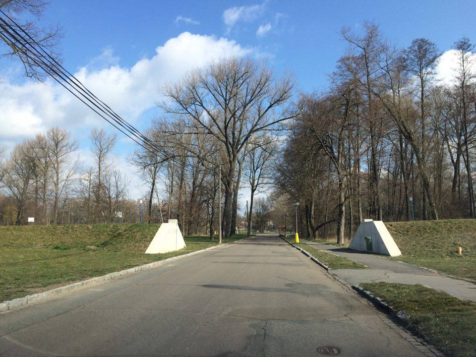 Antiflood dam in Polabec, Poděbrady, Czech Republic